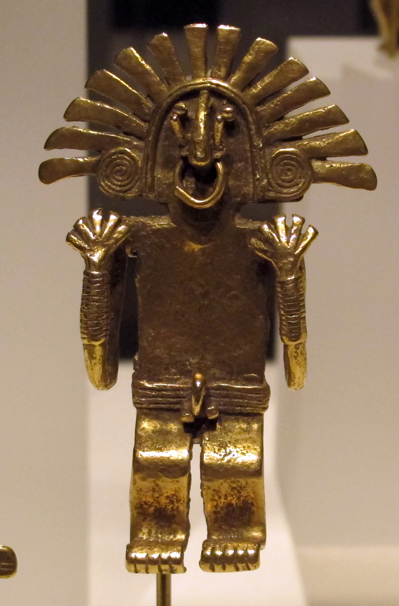 Pre-Columbian jewellery in the Metropolitan Museum of Art